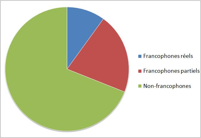 Competence of French in Senegal, 2005. From the Francophonie